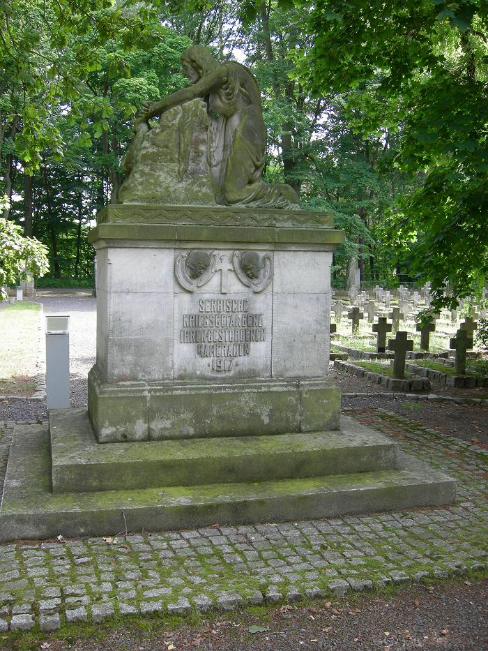 Monument in rememberance of the serbian prisoners at Łambinowice (Lamsdorf)